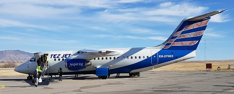 A British Aerospace 146-200 (Avro RJ85) operated by Tez Jet at Isfana Airport